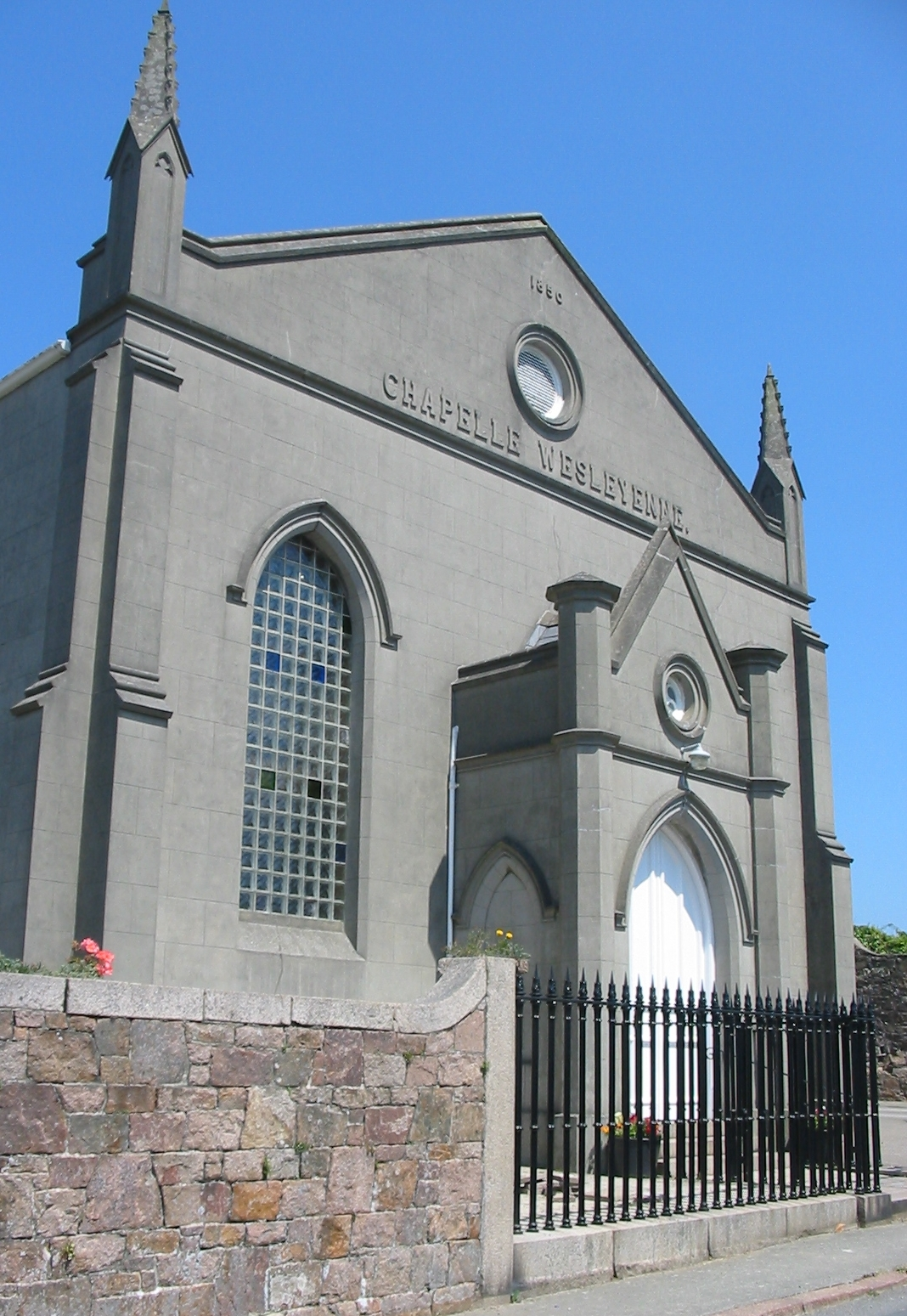 Methodist chapel, St Martin, Jersey